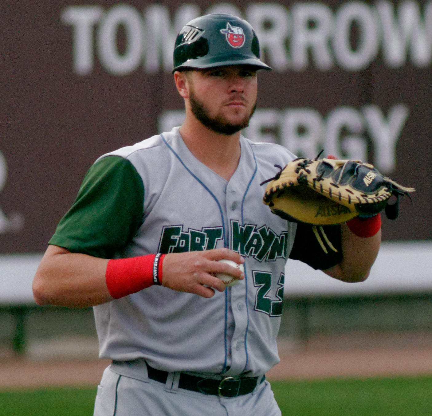 Austin Allen of the Fort Wayne TinCaps at Cooley Law School Stadium in Lansing, Michigan in 2016